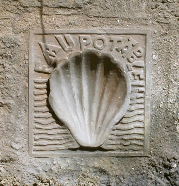 St. James' shell at a well of the Way, Saint-Guilhem-le-Désert, Languedoc-Roussillon, France